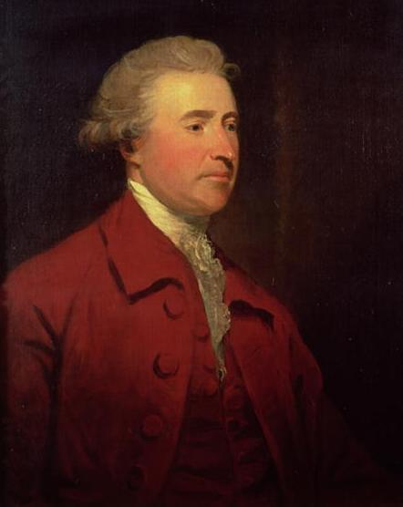 Portrait of Edmund Burke (1729-1797)